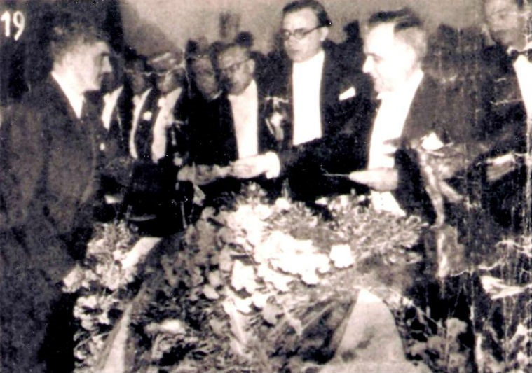 Commander Severiano Lins and president of Brazil Getúlio Vargas